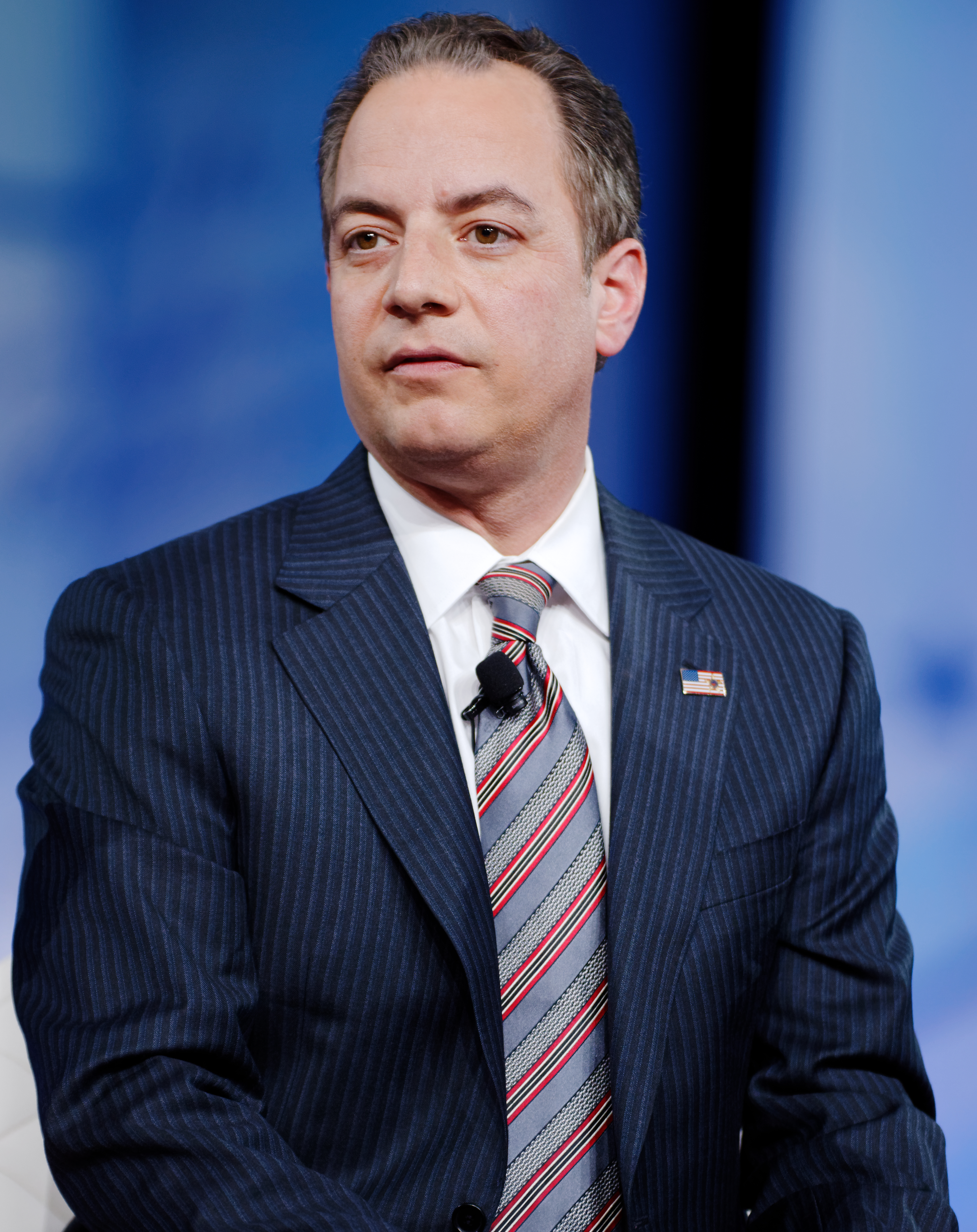 Reinhold Richard "Reince" Priebus[1] (/ˈraɪns ˈpriːbəs/ ryns pree-bəs;[2] born March 18, 1972) is the current White House Chief of Staff for U.S. President Donald Trump, serving since January 20, 2017.[3] Priebus is a lawyer and politician; he previously served as the Republican National Committee chairman, RNC general counsel, and chairman of the Republican Party of Wisconsin.[4] The Conservative Political Action Conference (CPAC; /ˈsiːpæk/ see-pak) is an annual political conference attended by conservative activists and elected officials from across the United States. CPAC is hosted by the American Conservative Union (ACU).[1] In 2011, ACU took CPAC on the road with its first Regional CPAC in Orlando, Florida. Since then ACU has hosted regional CPACs in Chicago, Denver, St. Louis, and San Diego. Political front runners take the stage at this convention. Speakers have included Donald Trump,[2]Ronald Reagan,[3][4][5] George W. Bush,[6] Dick Cheney,[7] Pat Buchanan,[8] Karl Rove, Newt Gingrich,[6] Sarah Palin, Ron Paul,[9] Mitt Romney,[6] Tony Snow,[6] Glenn Beck,[10] Rush Limbaugh,[11] Ann Coulter,[7] Allen West,[12] Michele Bachmann,[13] Laura Ingraham, Sean Hannity, Gary Johnson, Mike Pence, Jeanine Pirro, Betsy DeVos, Lou Dobbs, and other conservative public figures.